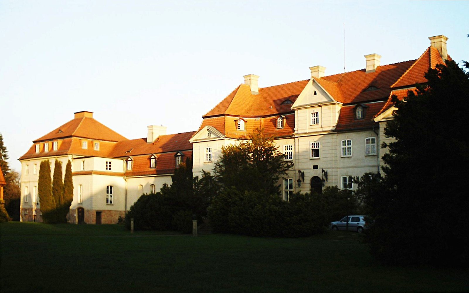 Castle of Karlsburg (front view); Germany, West-Pommerania